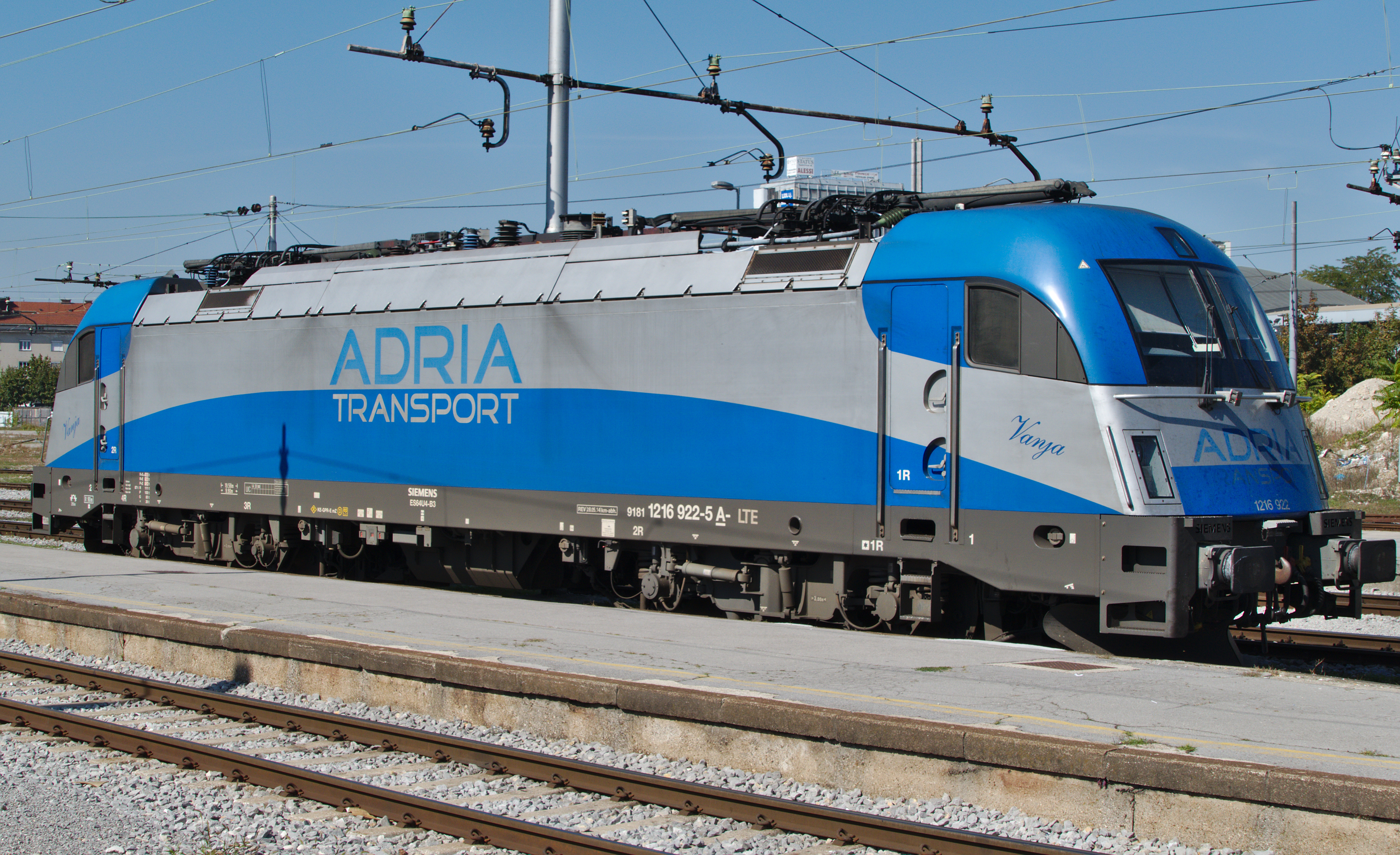 Adria Transport Siemens ES64U4 at Ljubljana railway station